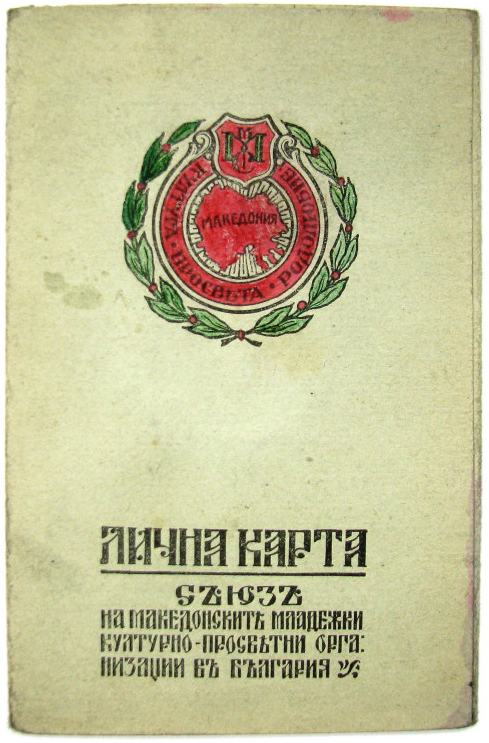 card of Macedonian youth union of Pavel Popandov